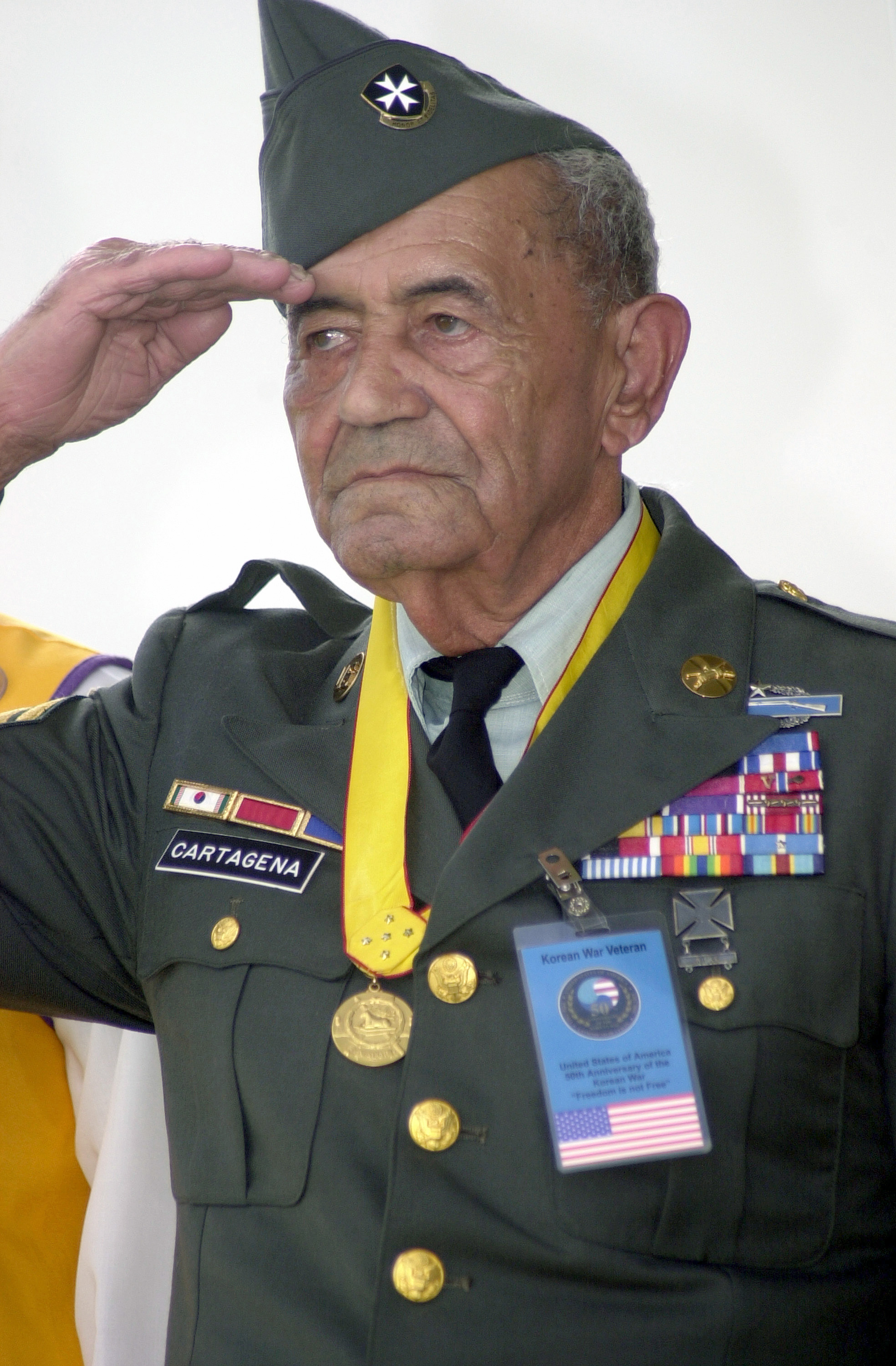 Korean war veteran, Sergeant First Class (Ret) Modesto Cartagena, one of the highest decorated men of the conflict, during a ceremony being held at the US Army Reserve center in Puerto Nuevo, Puerto Rico, marking the presentation of a plaque honoring the bravery and sacrifice of all veterans of the Korean War. Much praise was given to members of the fighting 65th Infantry veterans, who were some of the most highly decorated soldiers of the Korean War Scope and content: The original finding aid described this photograph as: Base: Usarc Puerto Nuevo State: Puerto Rico (PR) Country: United States Of America (USA) Scene Major Command Shown: MACOMS Scene Camera Operator: Lonnie D. Tague, Civilian, USA Release Status: Released to Public